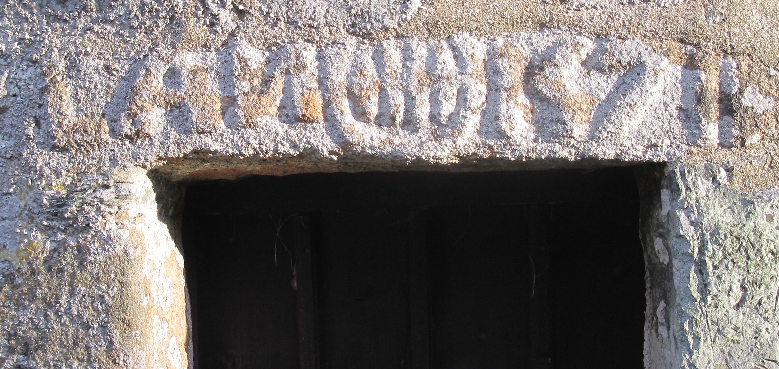 In Sark, 3 July 2010